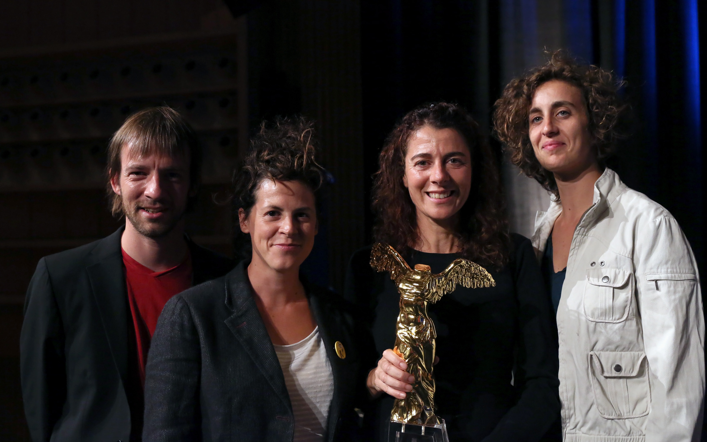 El Campo de Cebada with the Golden Nica of the Prix Ars Electronica 2013 in the category Digital Communities; Brucknerhaus, Linz, Upper Austria.